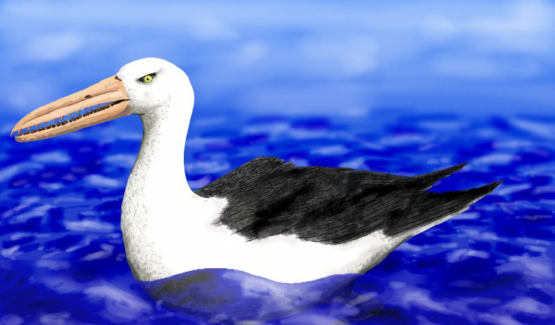 Crop of file in filename